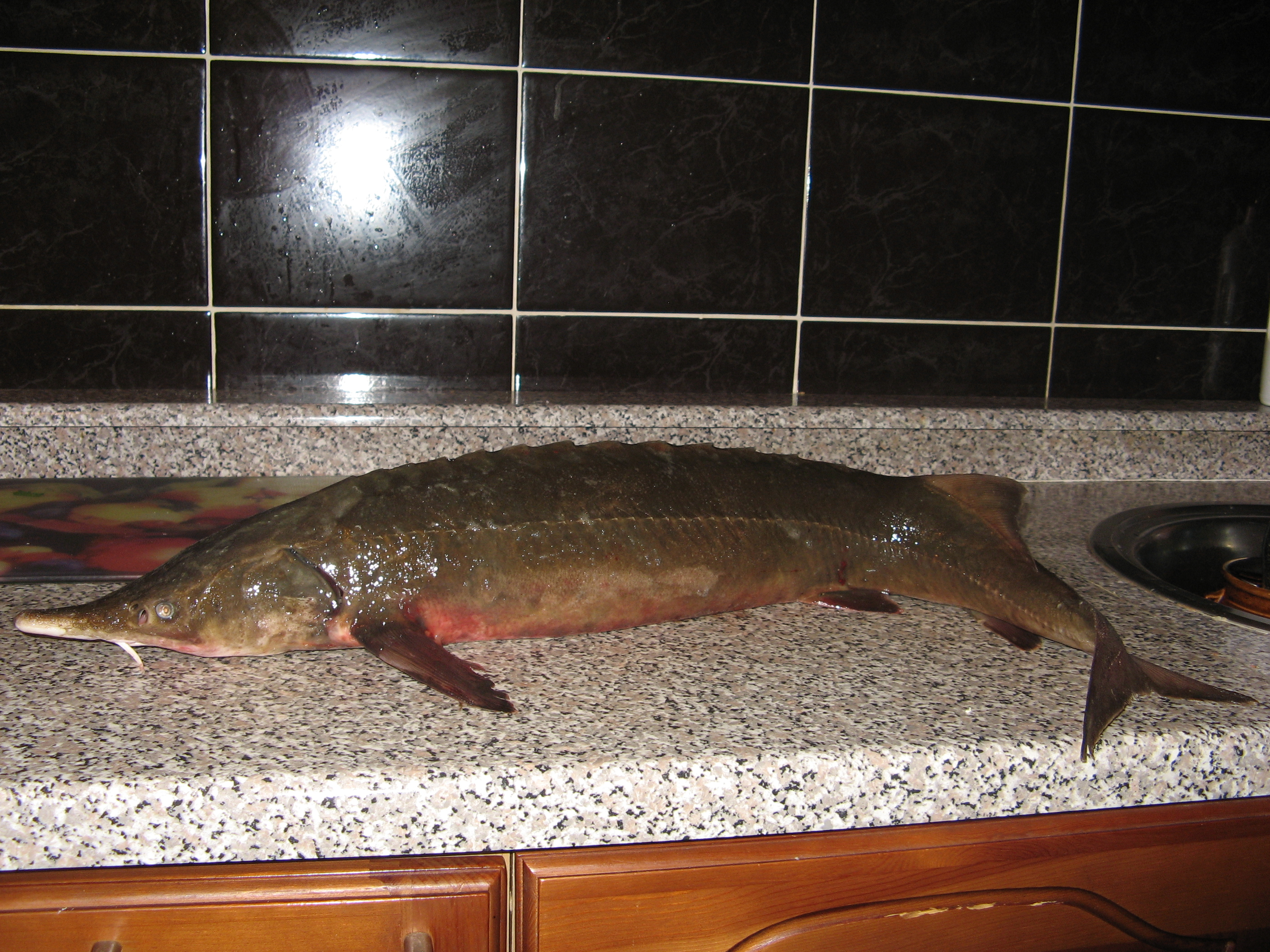 Siberian sturgeon